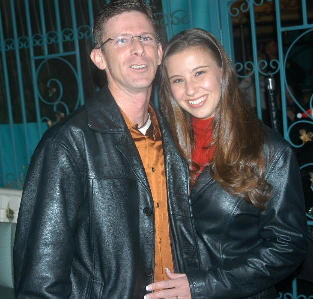 Kelly Kline, Richard Kline at LA Direct Model's Party, Dec 19, 2005